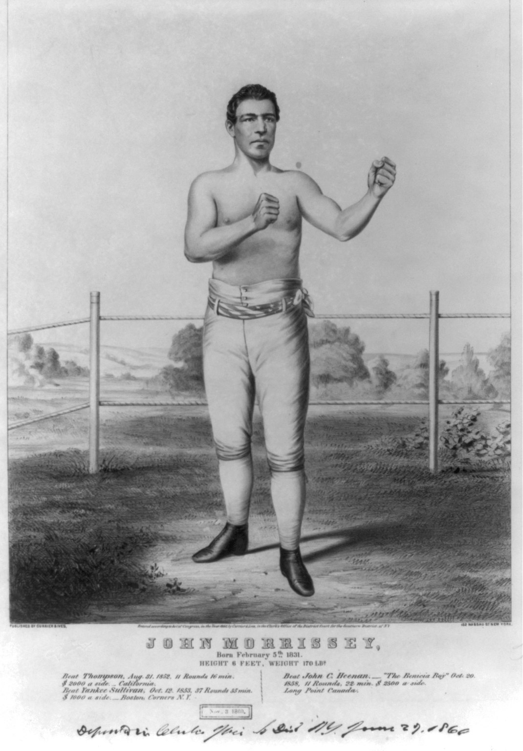 Title: John Morrissey: born February 5th 1831. height 6 feet. weight 170 lbs Physical description: 1 print : lithograph.